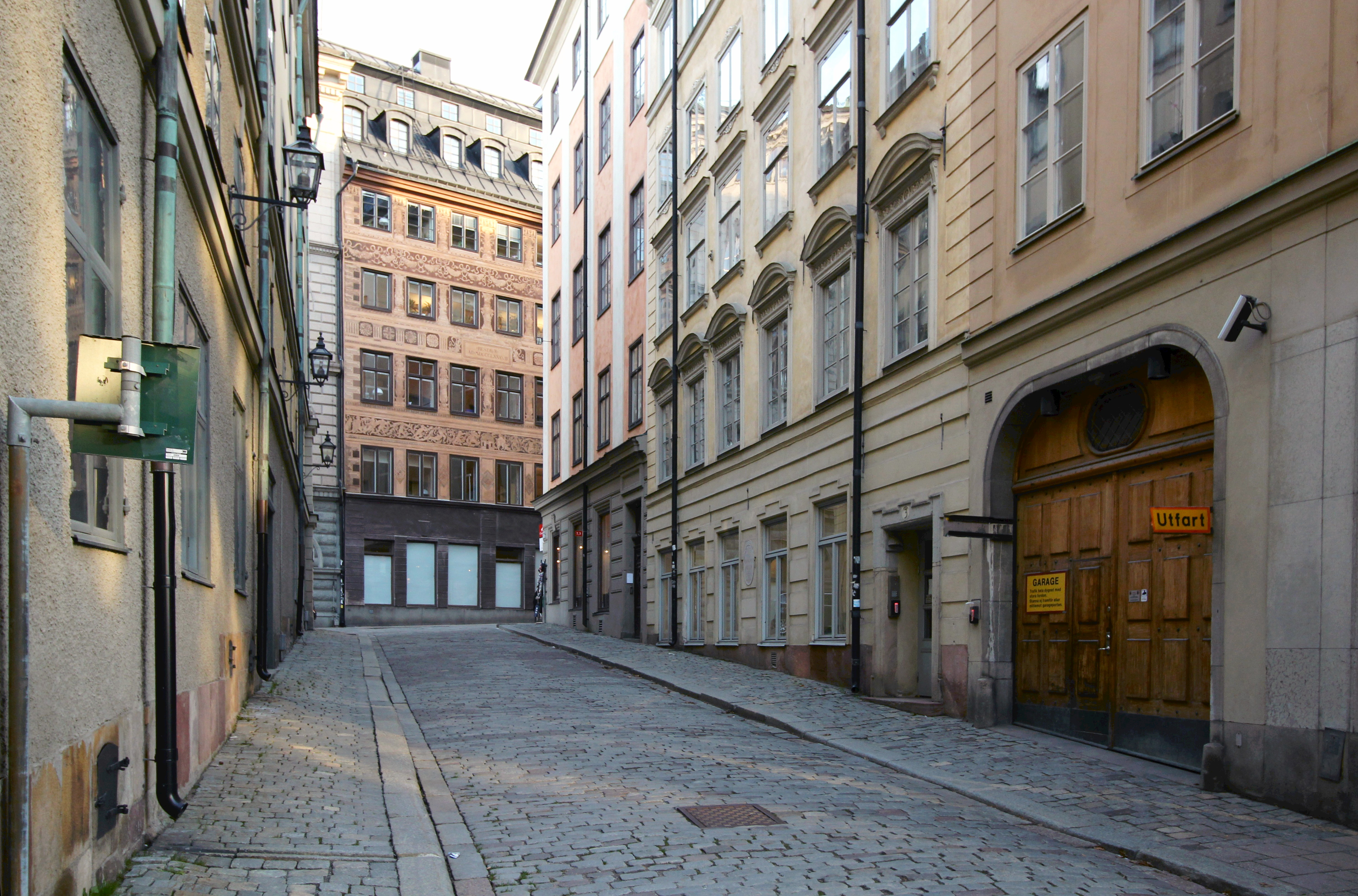 Salviigränd, alley in Gamla Stan (Old town) Stockholm. Salviigränd is adjacent to Västerlånggatan